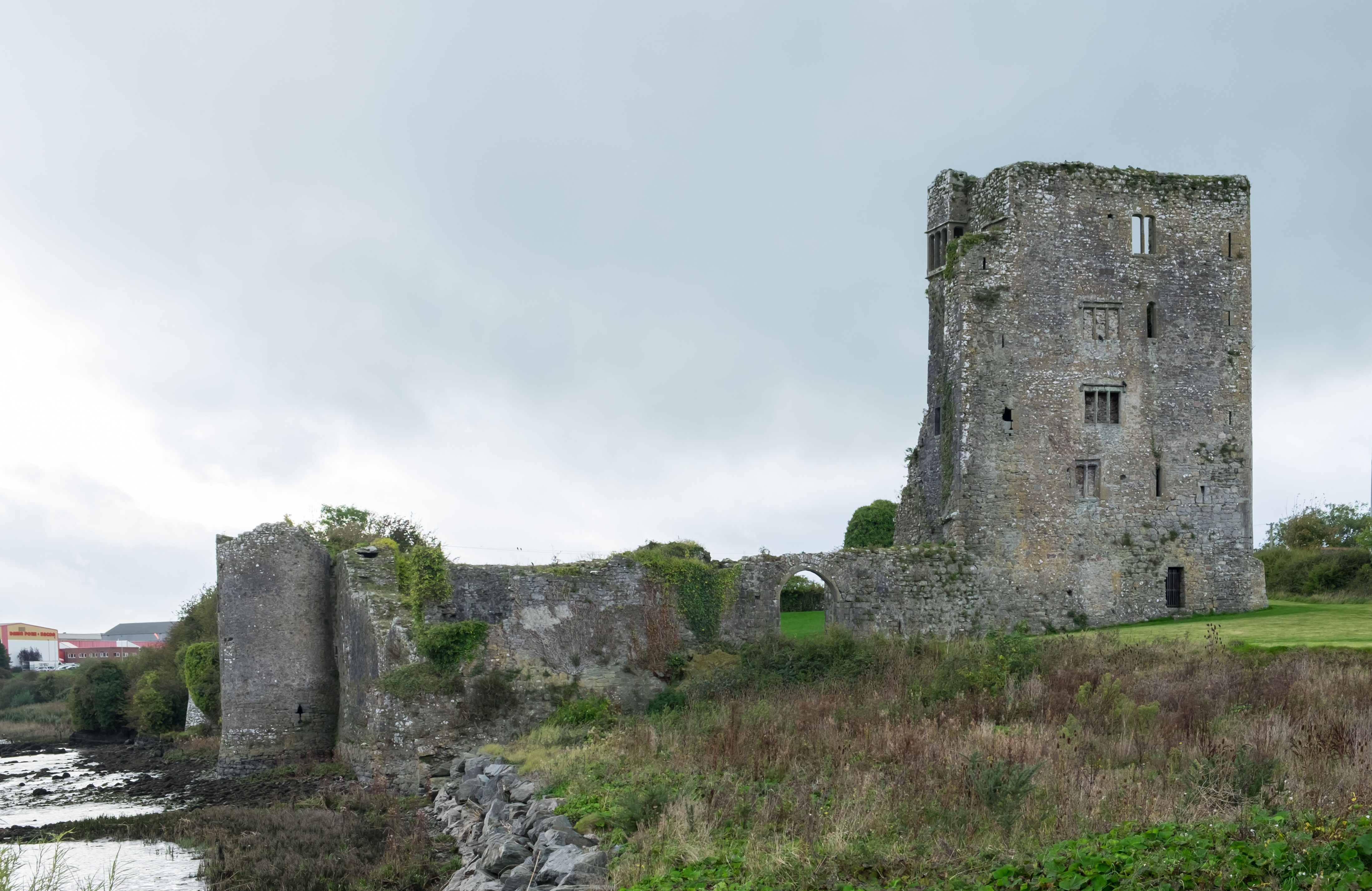 Granagh Castle, a 13th century castle near Waterford, Ireland.